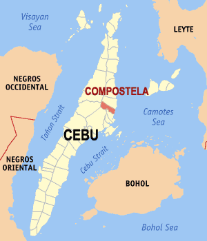 Map of Cebu showing the location of Compostela